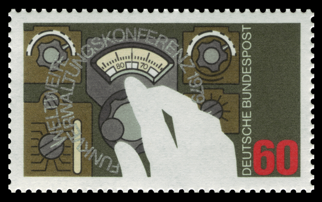 World Administrative Radio Conference, Genf